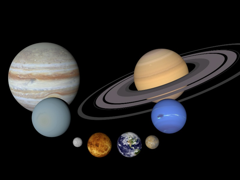 I made the planet size comparison with eight planets using Cinema 4D R14.014 Broadcast. Texture Credits: Calvin J. Hamilton (USGS/Leonard Wikberg), James Hastings-Trew, Björn Jónsson, William Robert Johnston and NASA Visible Earth.